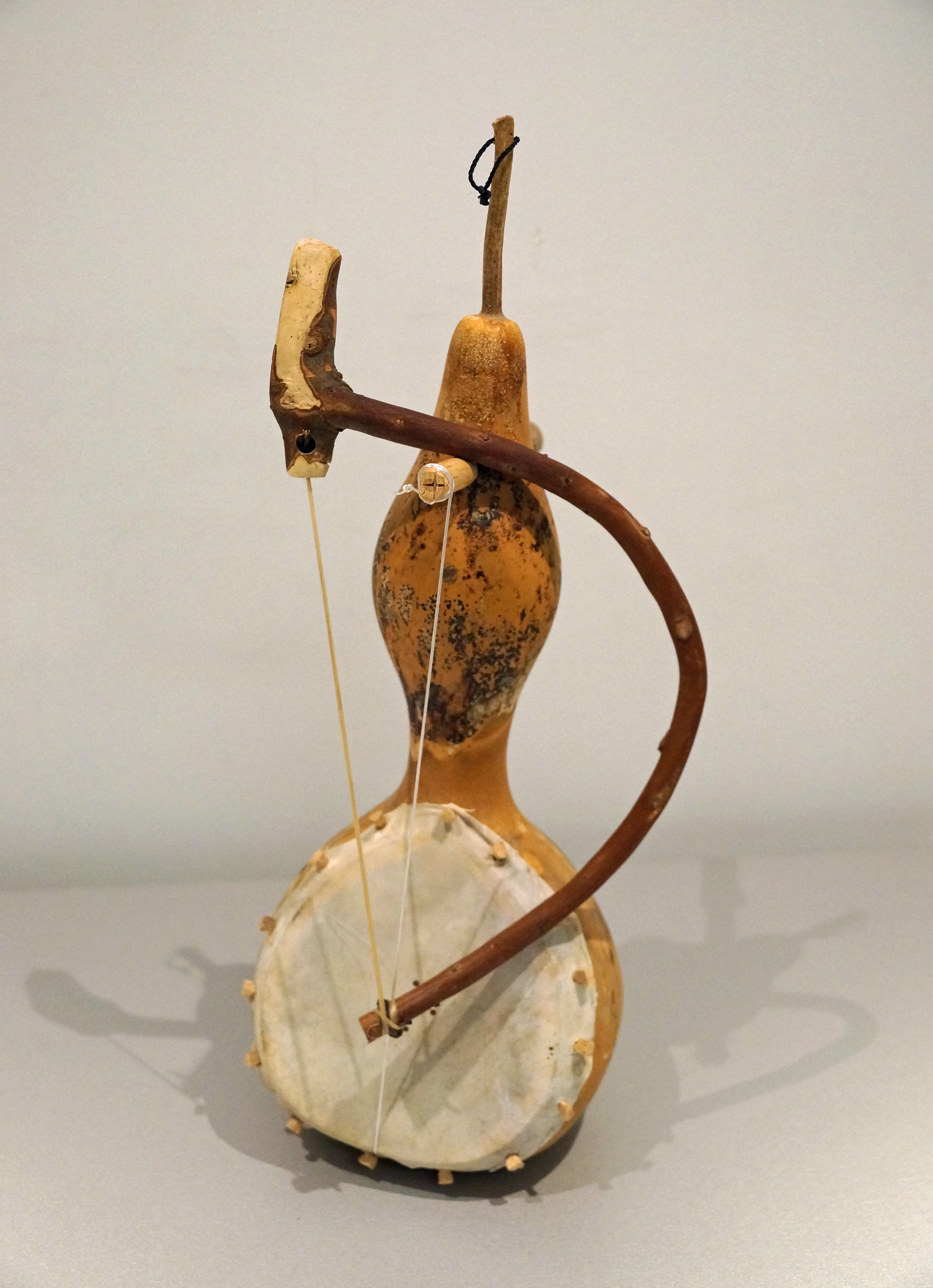 Lahuta made of a pumkin from Northern Albania (Mirditë) – uploaded during Wikipedia Weekend Tirana 2015Shqip: Lahuta nga Shqipëria e Veriut (Mirditë) - Ngarkuar gjatë Wikipedia Weekend Tirana 2015